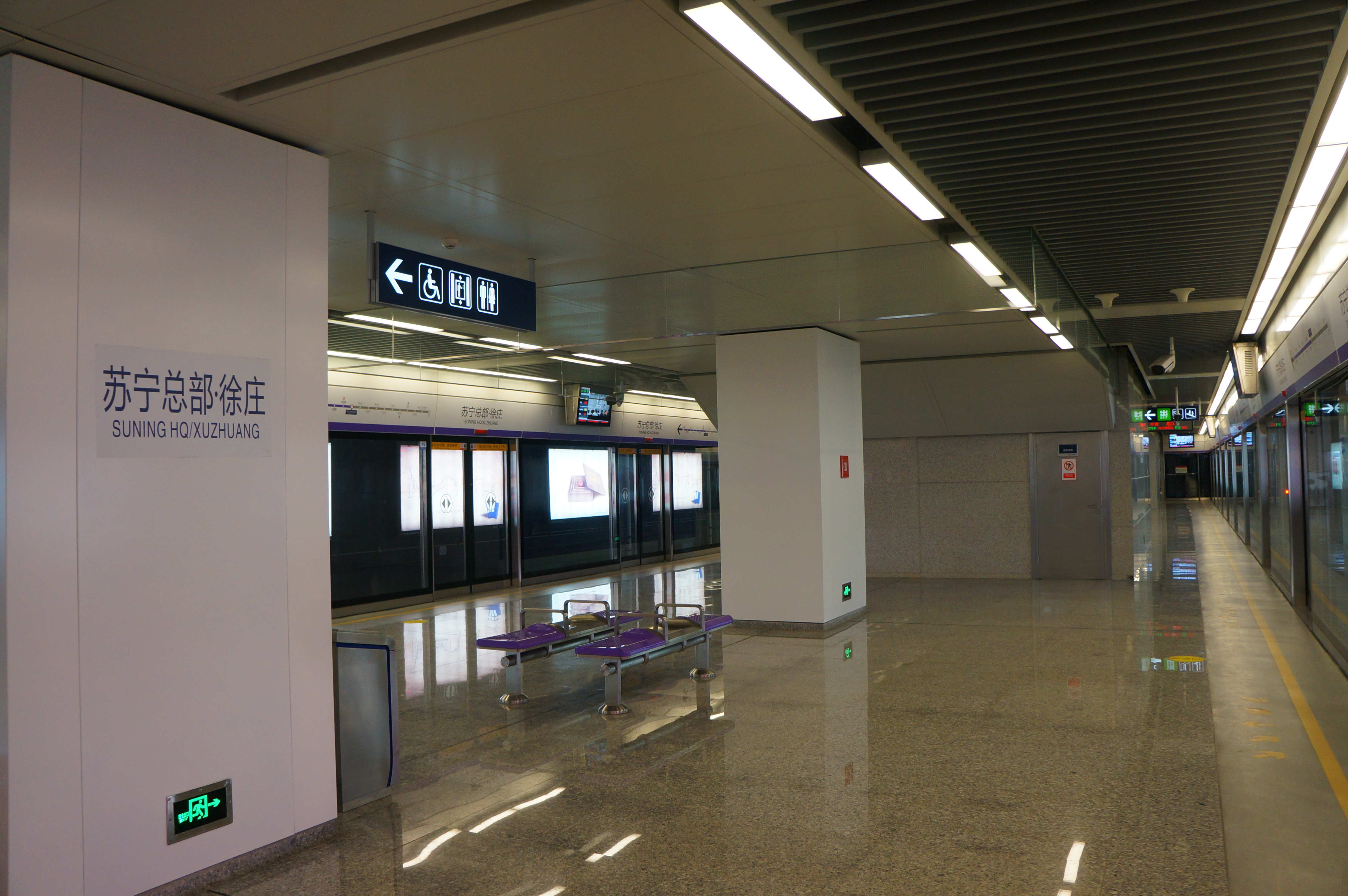 201704 Platform of Suning HQ-Xuzhuang Station, the calligraphy board was too strongly reflective.